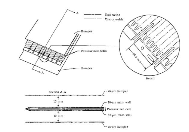 Eplorer 46 spacecraft Drawing of panels with bumpers showing double structure tested on Explorer 46. All matérial was 21-6-9 stainless-steel